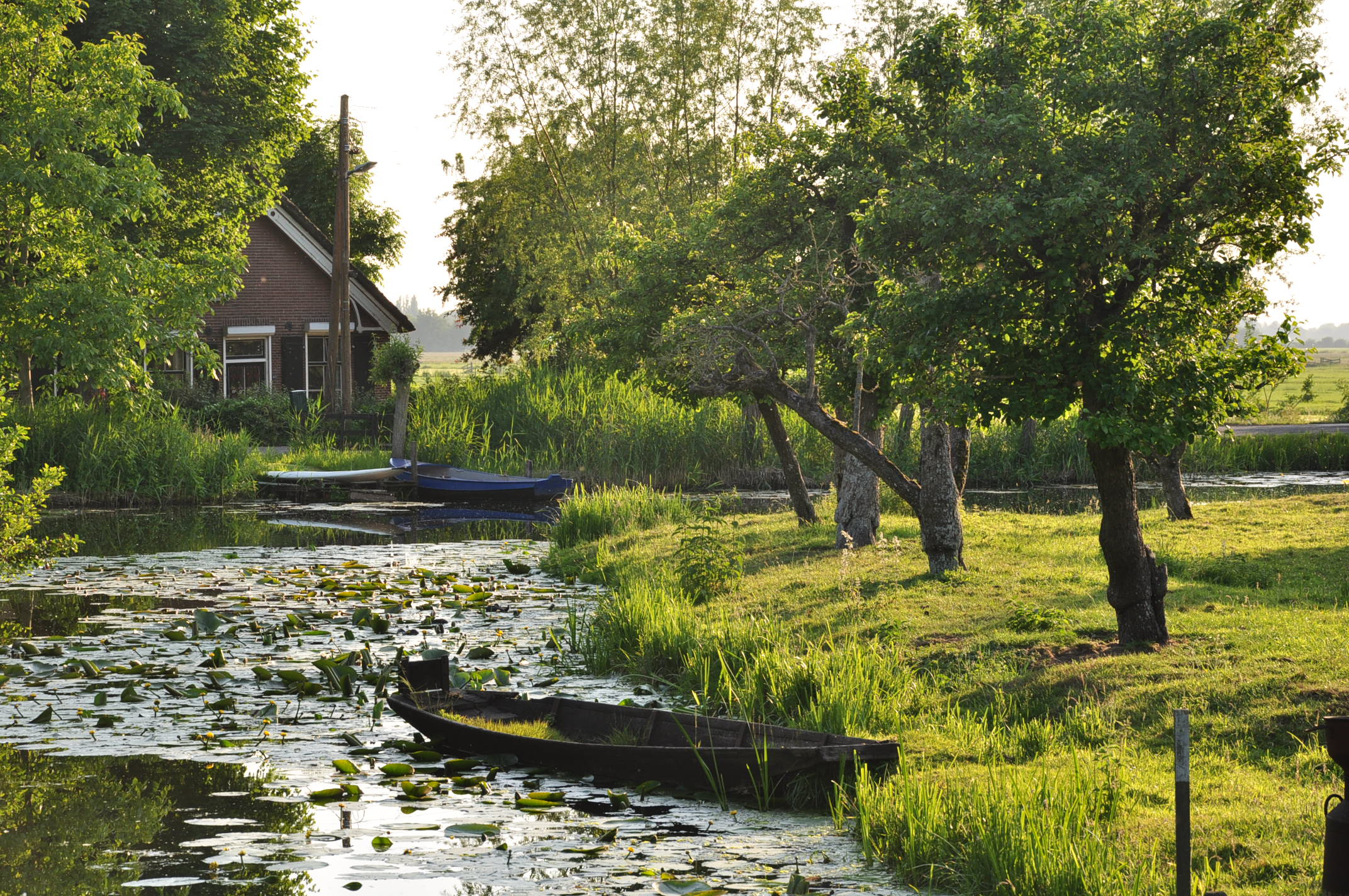 A spring evening along the river Vlist (Province of South-Holland, Netherlands)